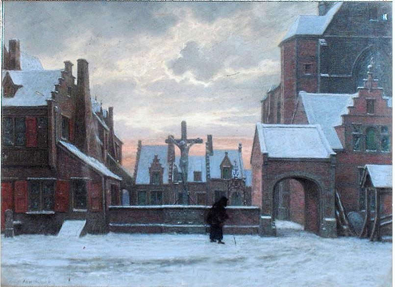 "Trudging Through the Snow", pastel (50 x 70 cm) by Frans van Kuyck (1852-1915); private collection